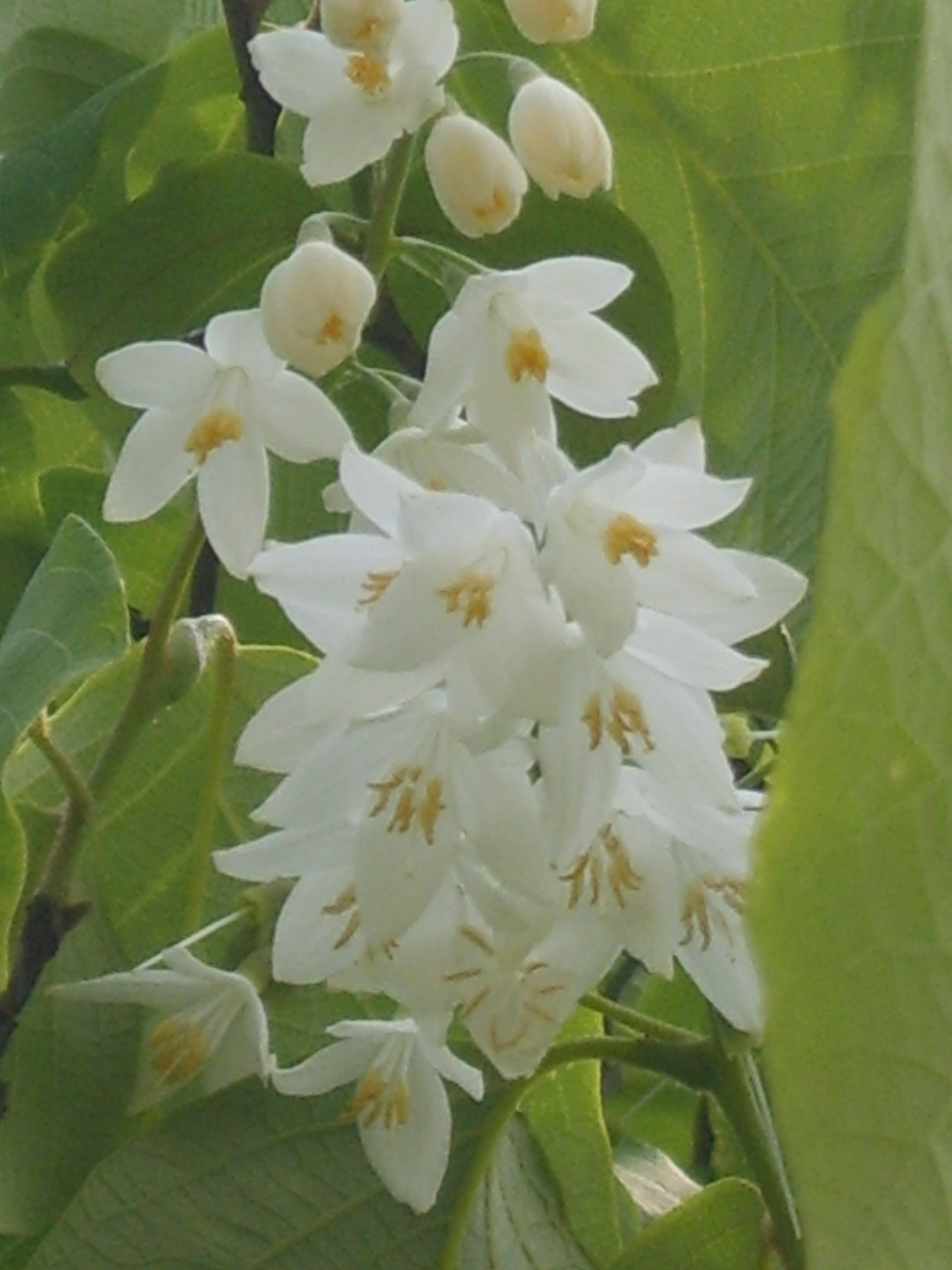 Styrax obassia in Incheon Grand park, Korea